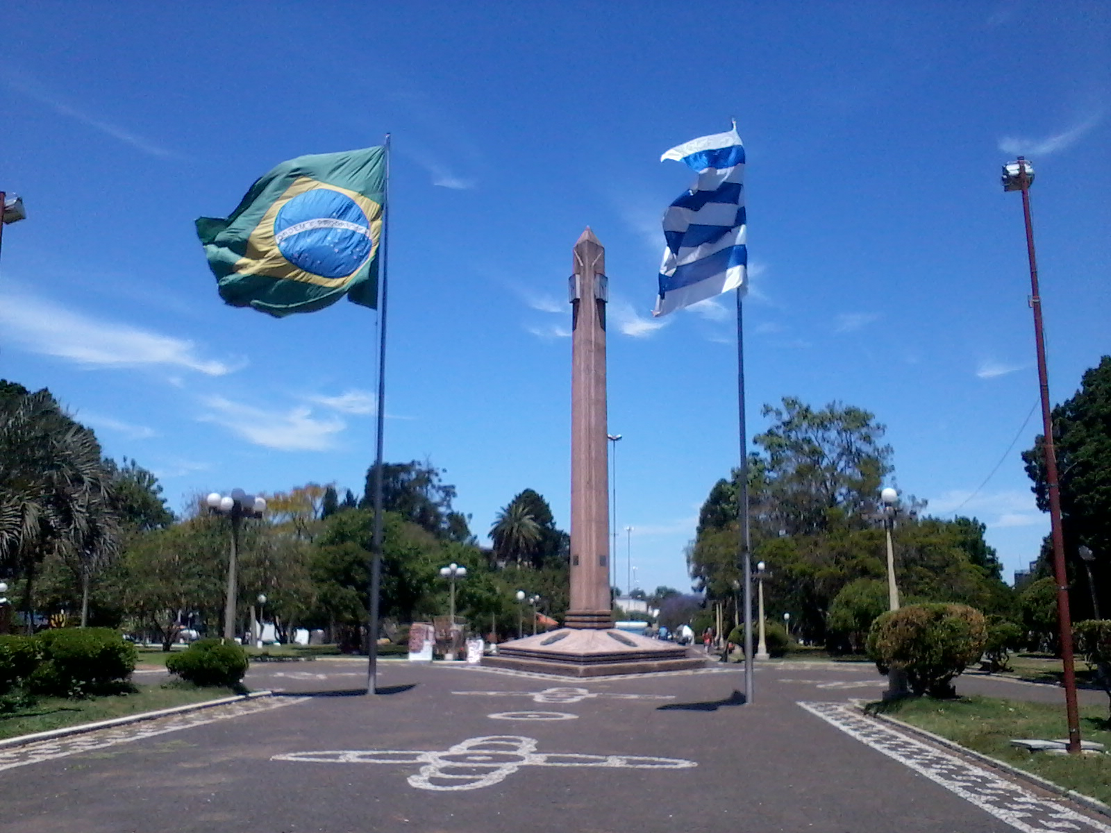 Border Brasil (Santana do Livramento) e Uruguai(Rivera)